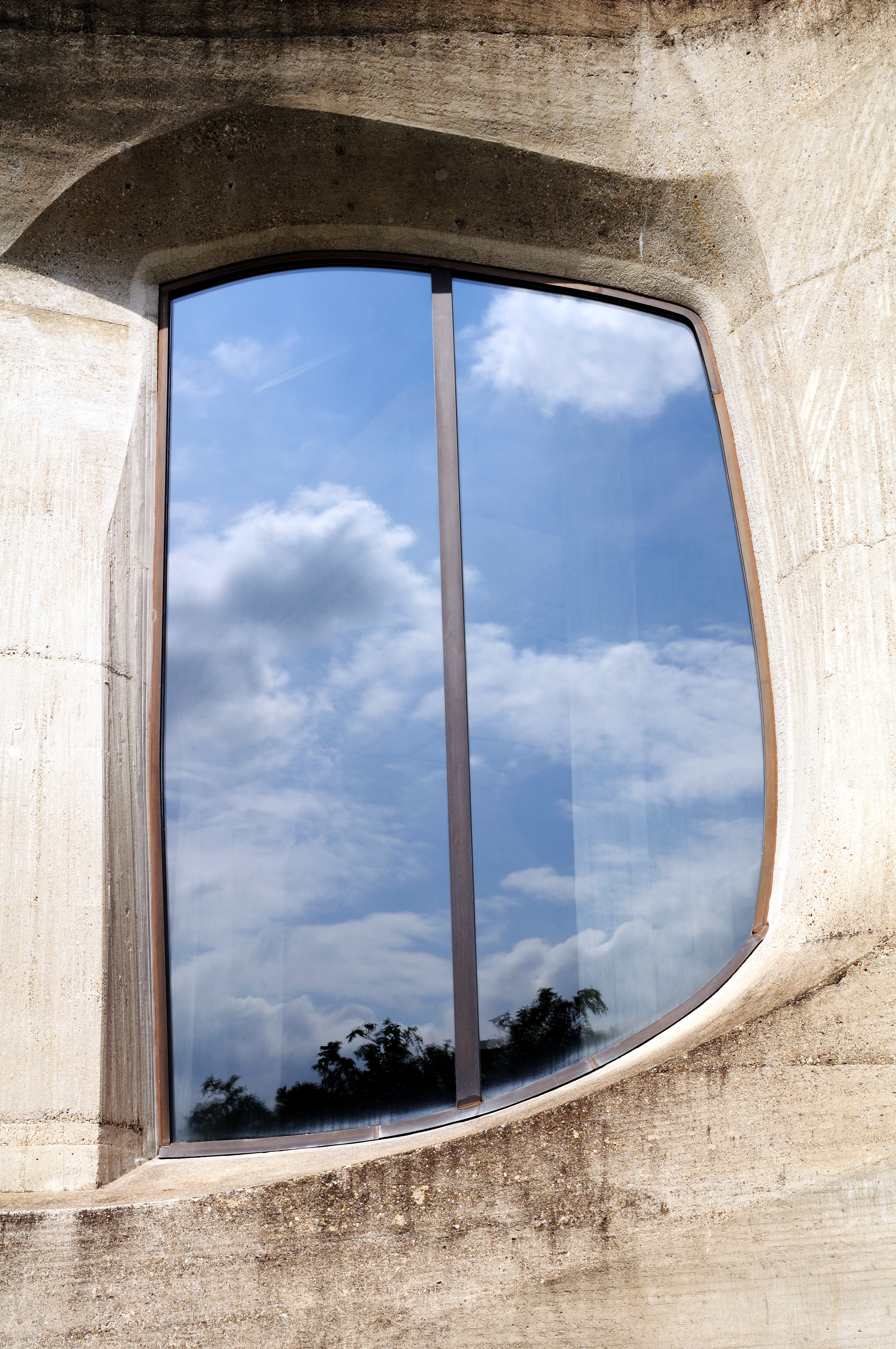 Goetheanum: window